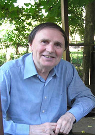 Andrey Zaliznyak